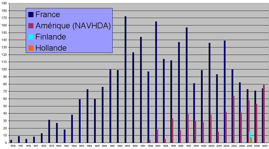 Number of birth of braque du Bourbonnais dog, each year and in each coubtry.